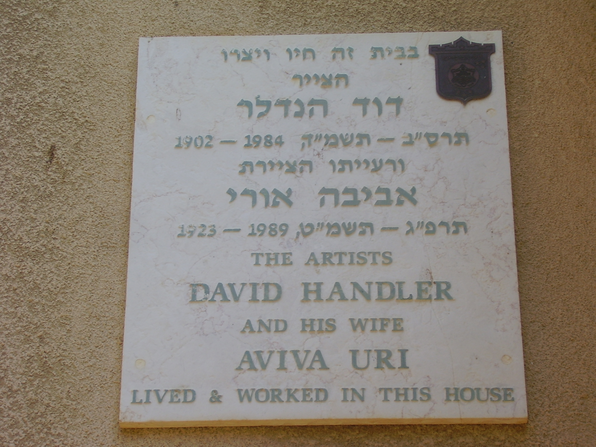 memorial plaque on the house of the painters david handler and aviva uri in tel aviv לוחית זיכרון על ביתם של הציירים דוד הנדלר ואשתו הציירת אביבה אורי ברח' יריחו 3 בתל אביב